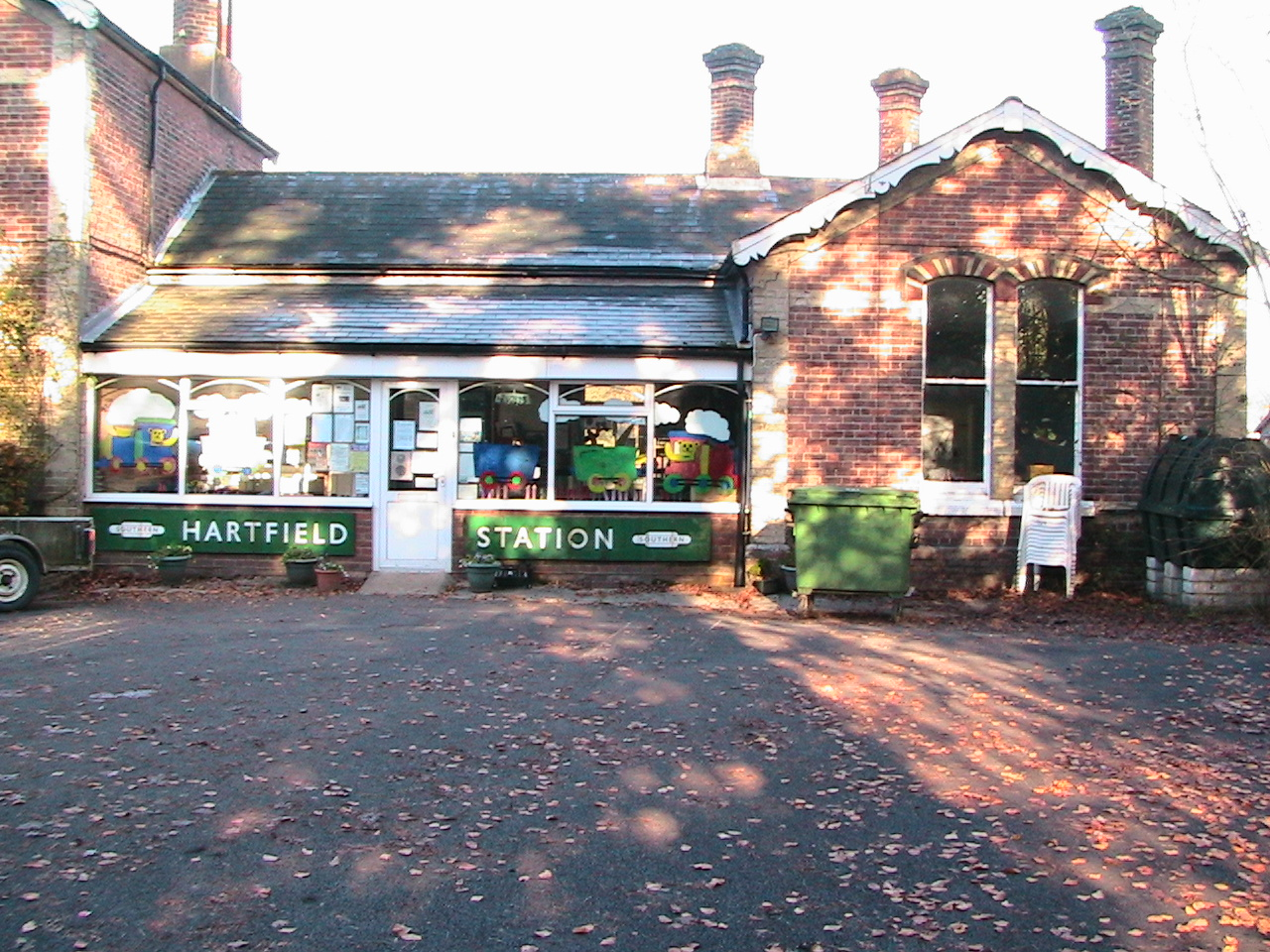 Hartfield east sussex station building